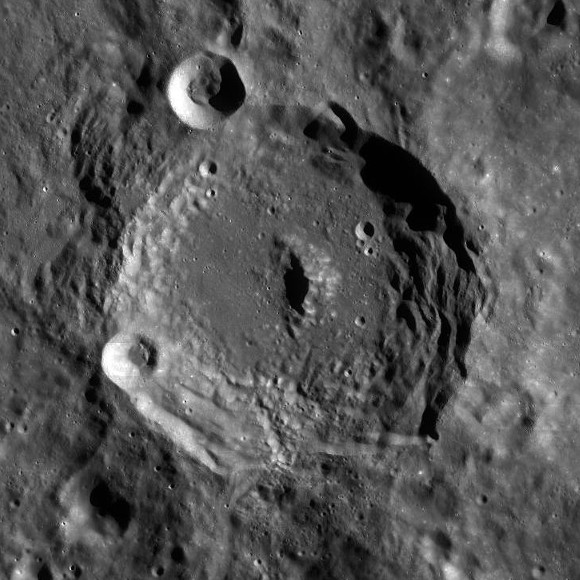 Langmuir crater, on the far side of the moon. Mosaic of LRO WAC images. Aspect ratio adjusted from Mercator Projection.